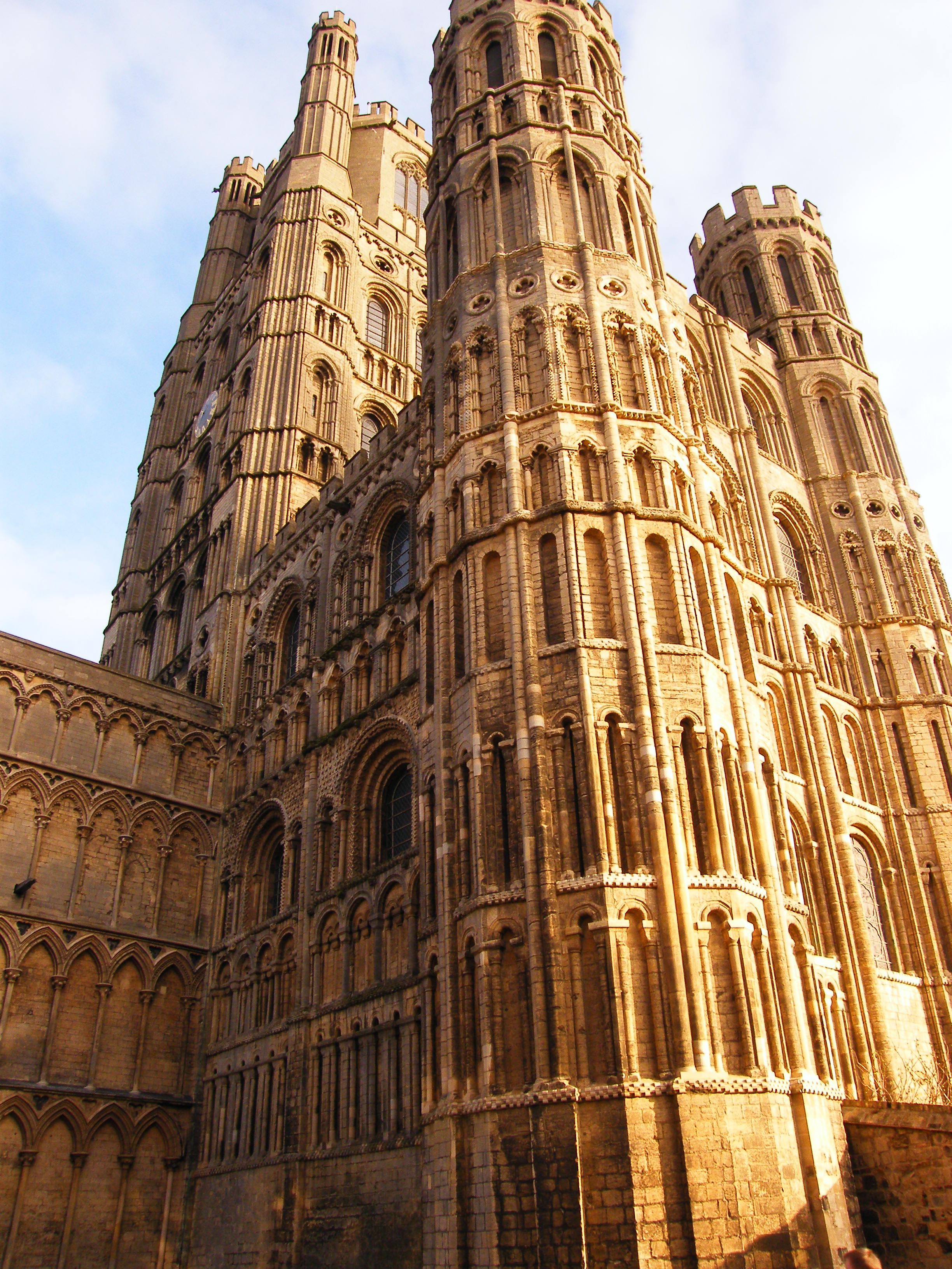 Ely, UK